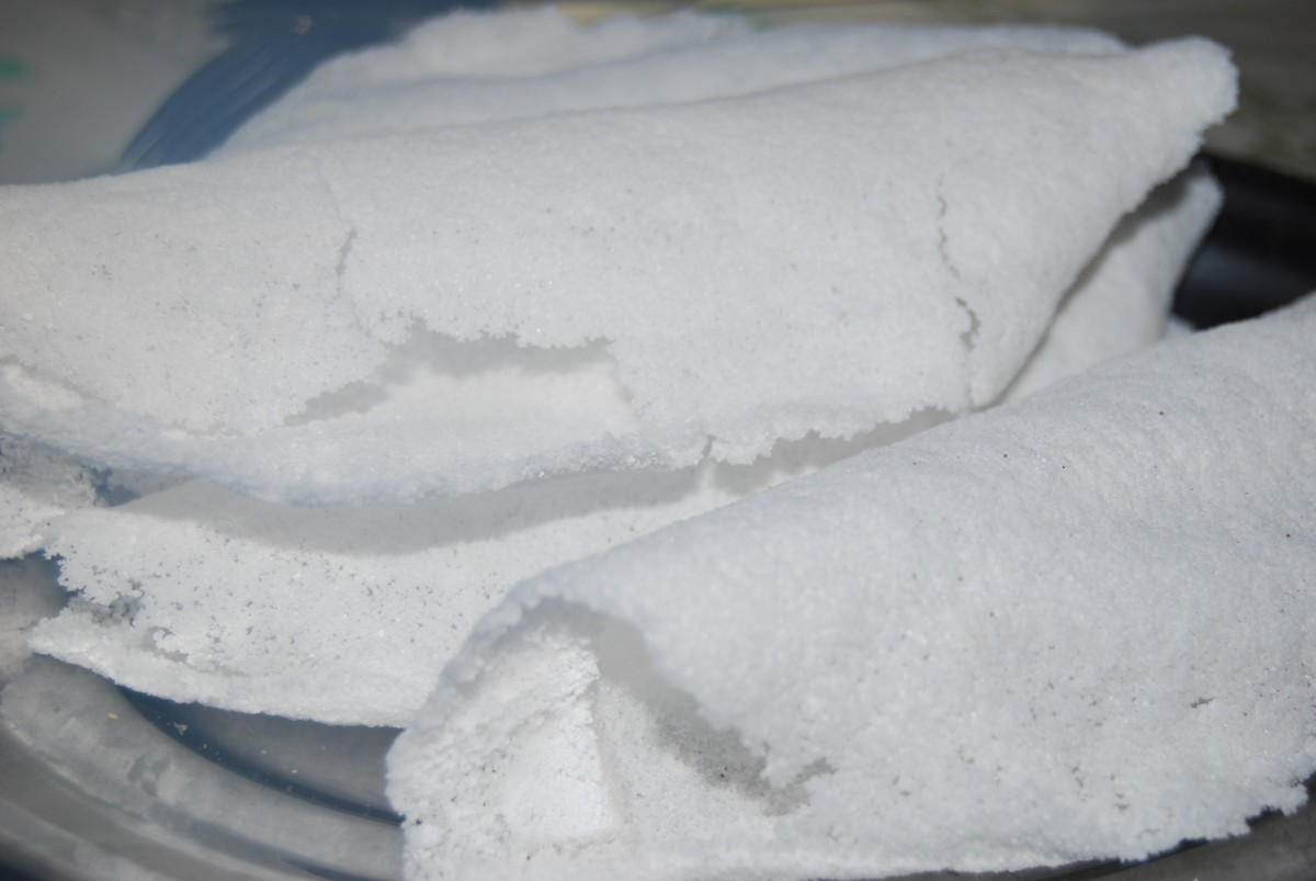 Beiju (cassava starch pancake)